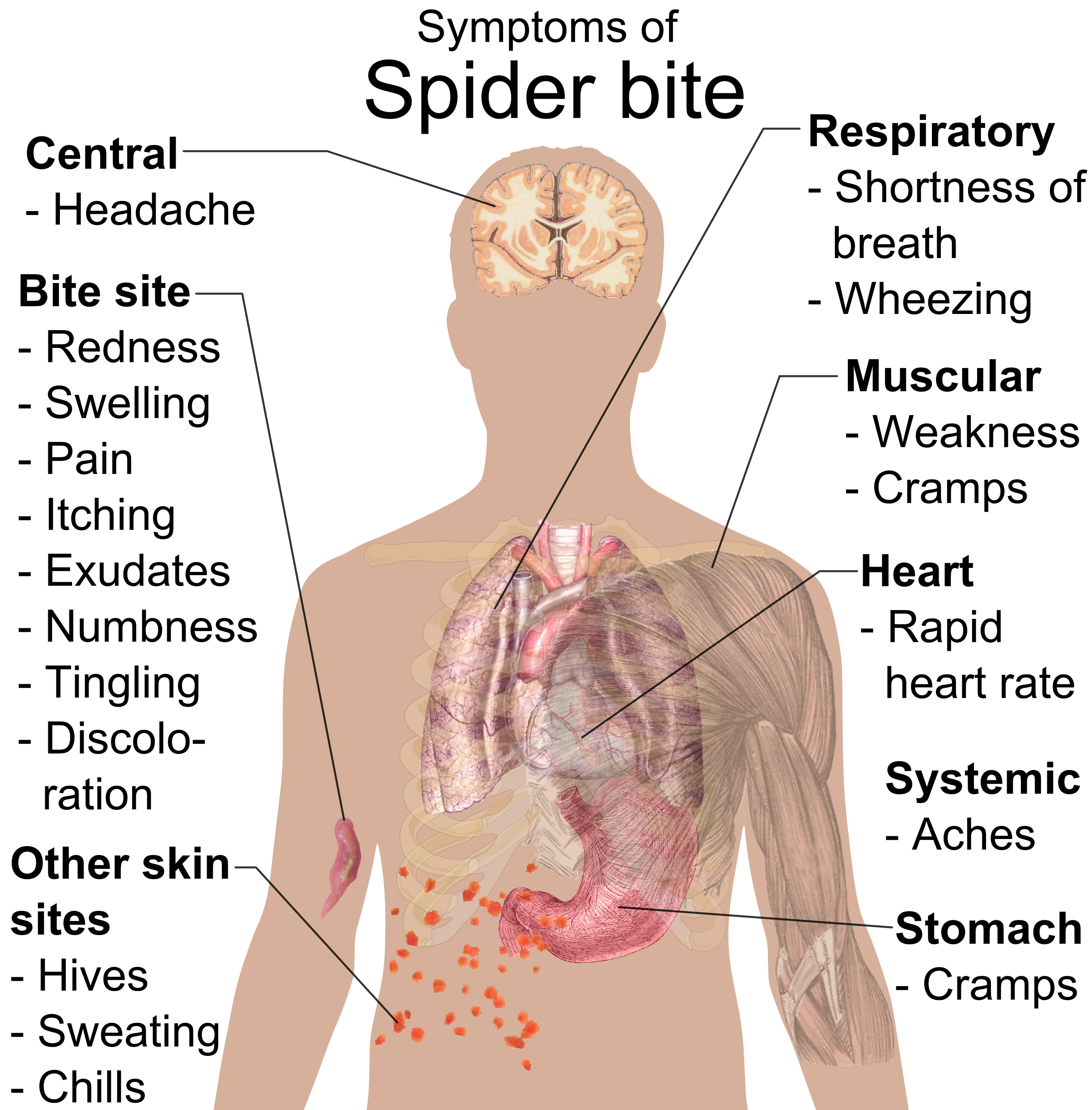 Symptoms most common in all types of poisonous spider bite. (See Wikipedia:Spider#Spider bites). The bite site composition in the picture is exampled from White-tailed spider bite. Model: Mikael Häggström. To discuss image, please see Template talk:Häggström diagrams References Spider Bite Symptoms and First Aid By Rod Brouhard, . Updated: October 19, 2008